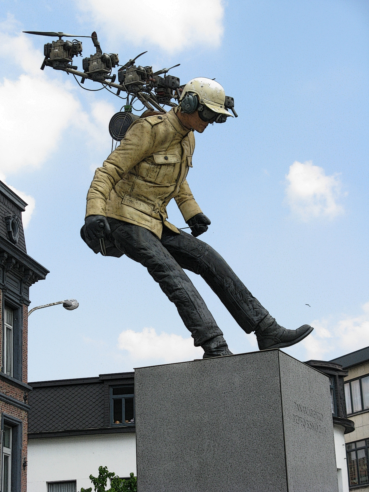 Statue in Honor of Belgian Artist Panamarenko